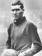 Picture of goalkeeper Elisha Scott. It is unclear who the author of the photo is. The photo appears to be a shot of the player training or warming up before a match. It's not clear whether it was taken by a reporter or someone connected to the club.